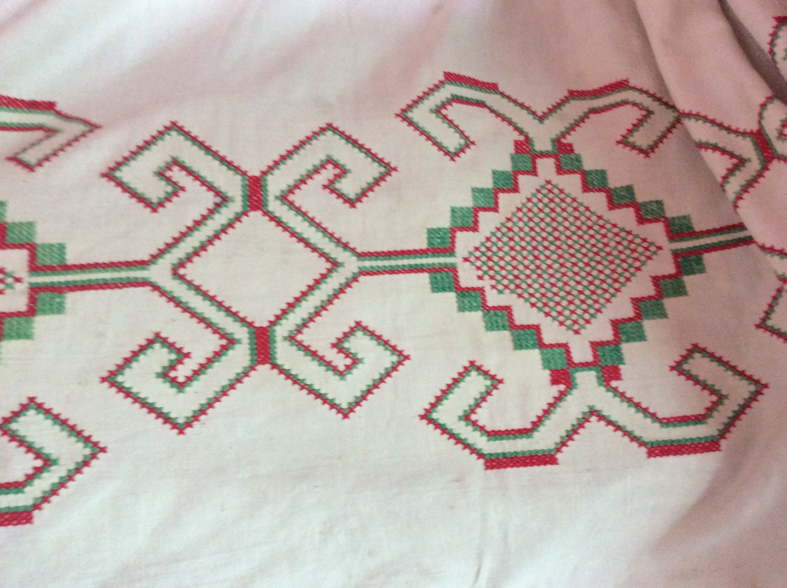 Rapidly disappearing Phulkari embroidery style